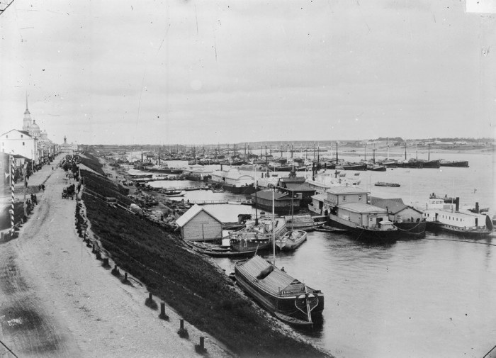 Volga embankment in Rybinsk.